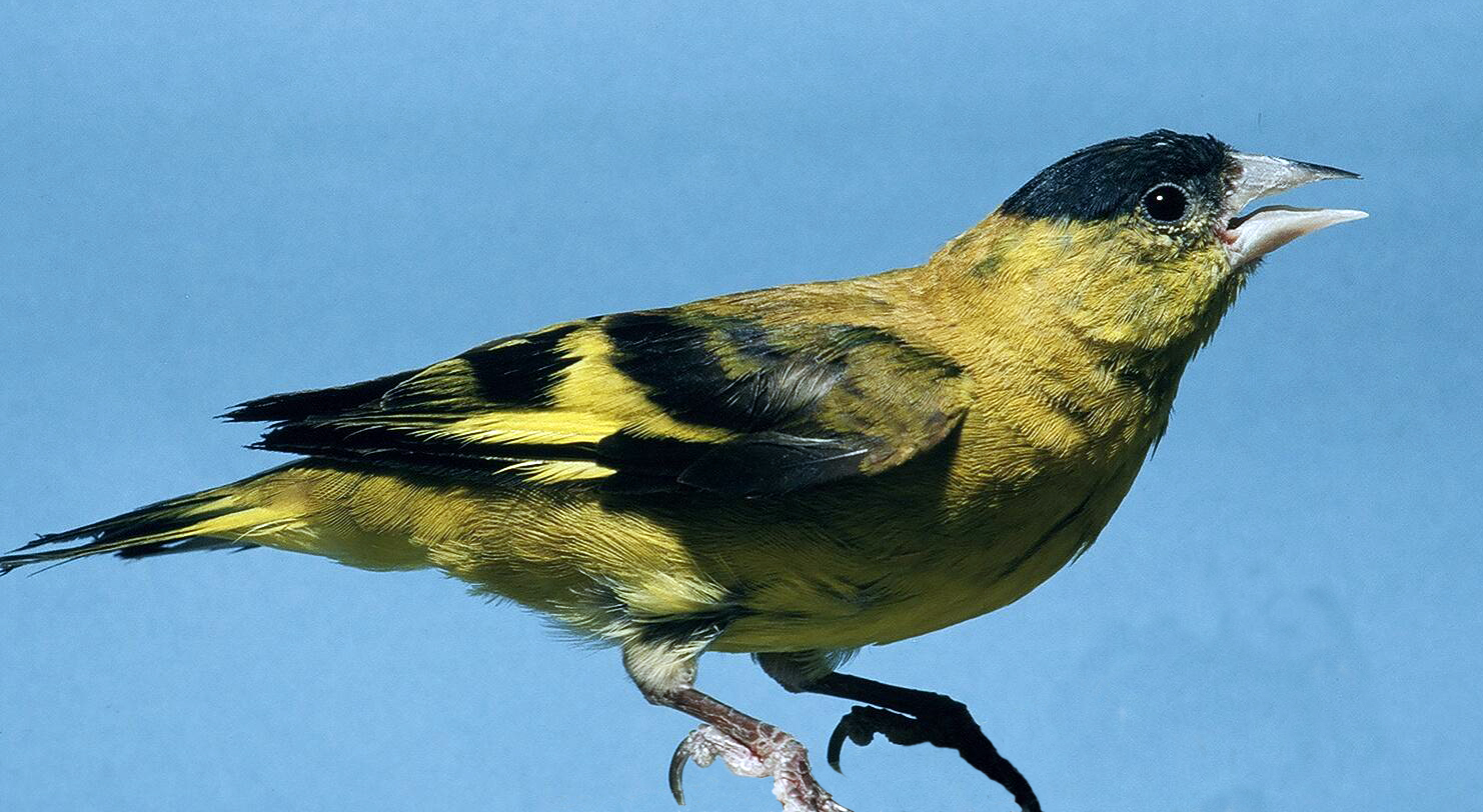 Male Andean siskin or Naverito, Turpialin andino from Venezuela